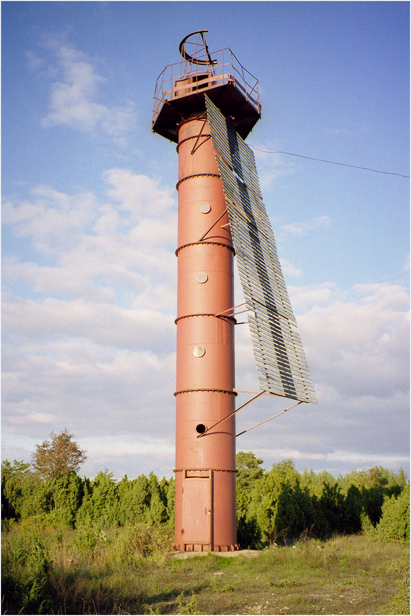 Sviby rear light beacon